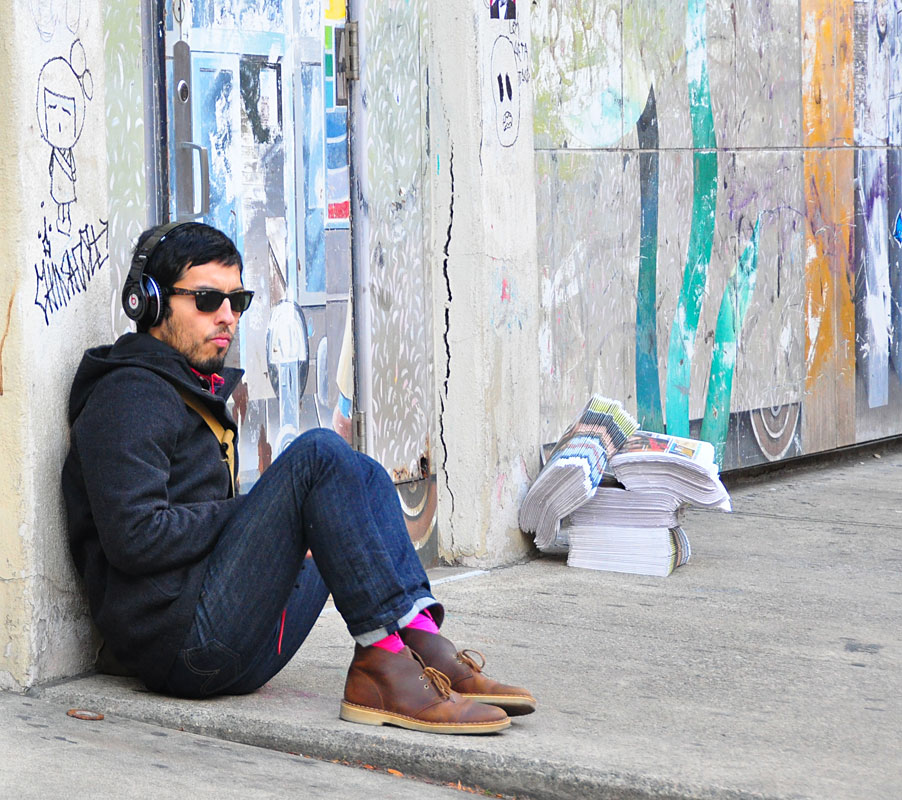 A hipster on Newbury Street, Boston, USA, sitting in front of the former streetcar transfer station at what is now Hynes Convention Center station.